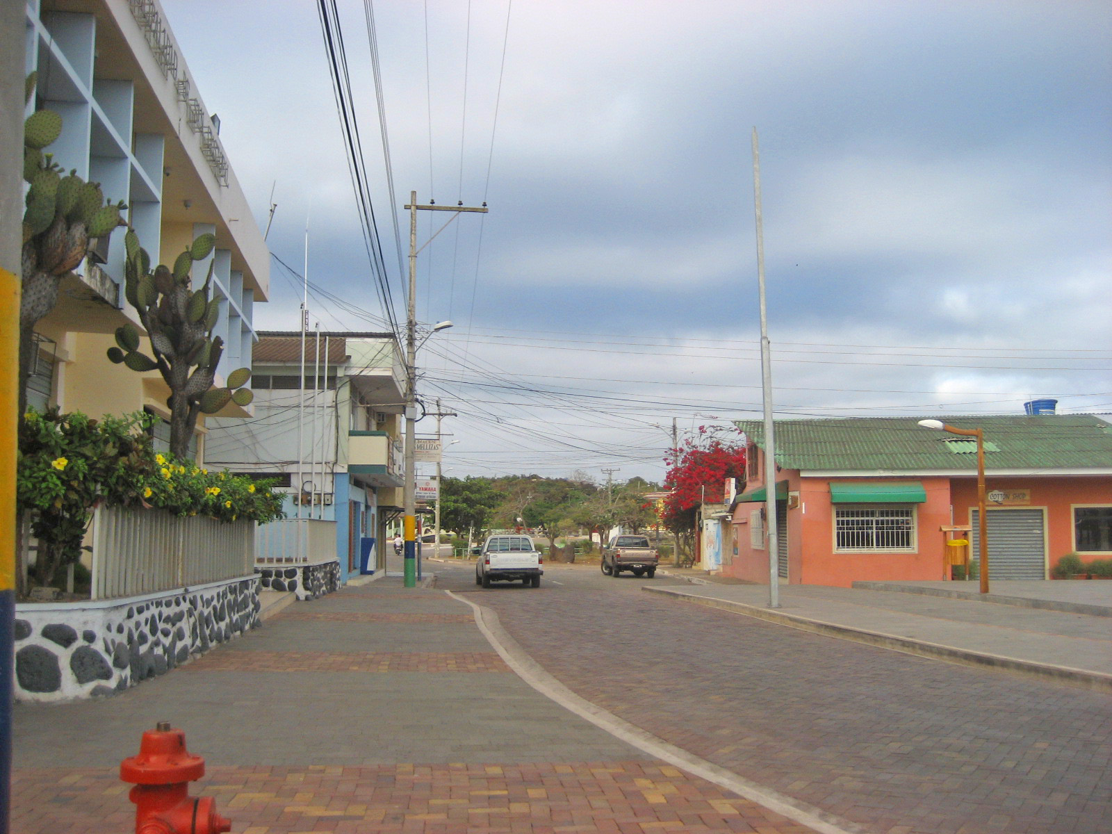 VIew of San Cristoban.